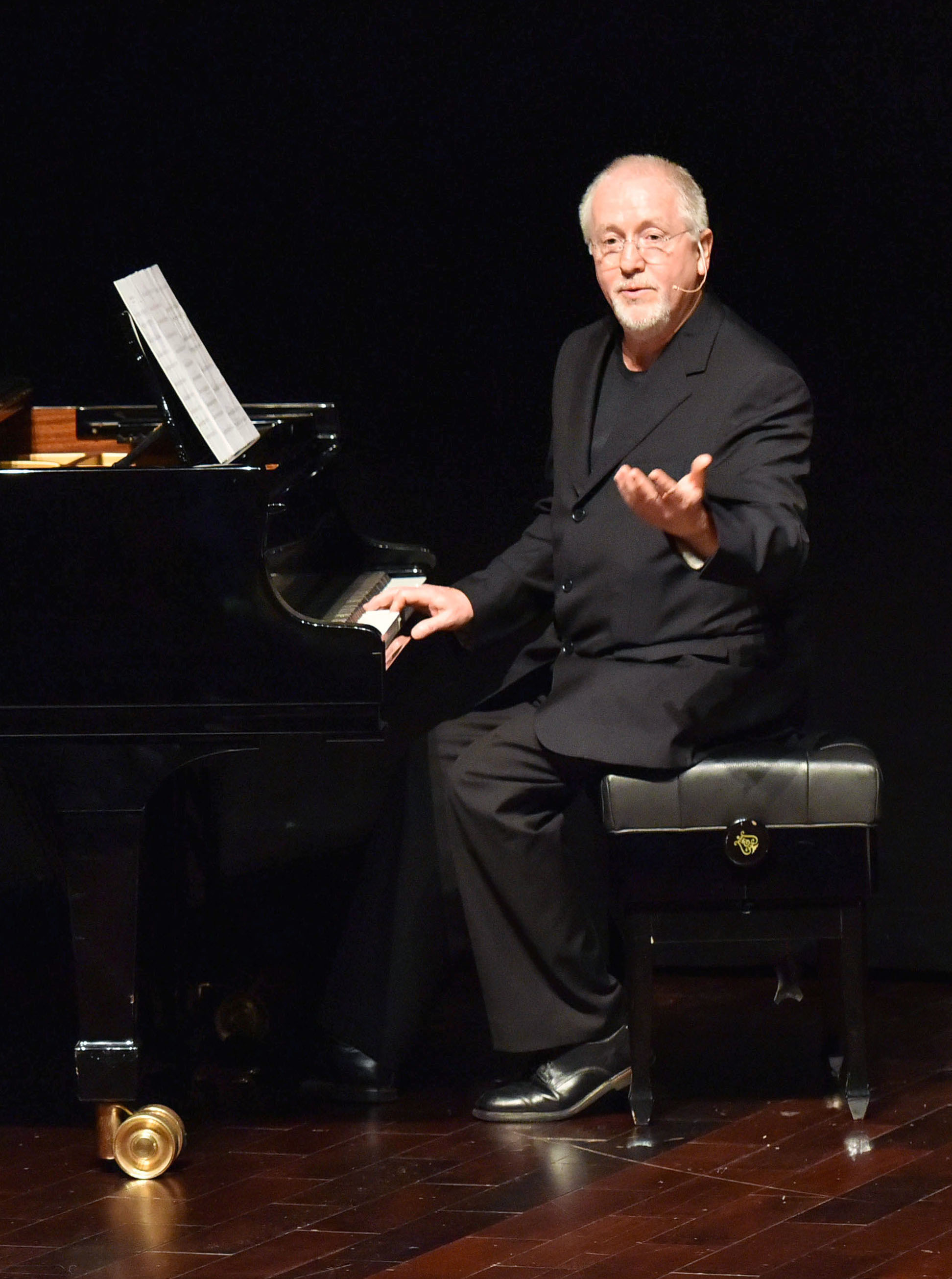 This is a photograph of Composer Patrick Doyle giving a Film Music Masterclass at the Doha Film Institute in Qatar.